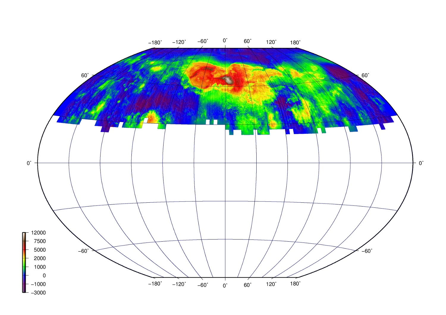 Venera topography data displayed on a Winkel Tripel projection unsing GMT. Data from and gridded with Grass.